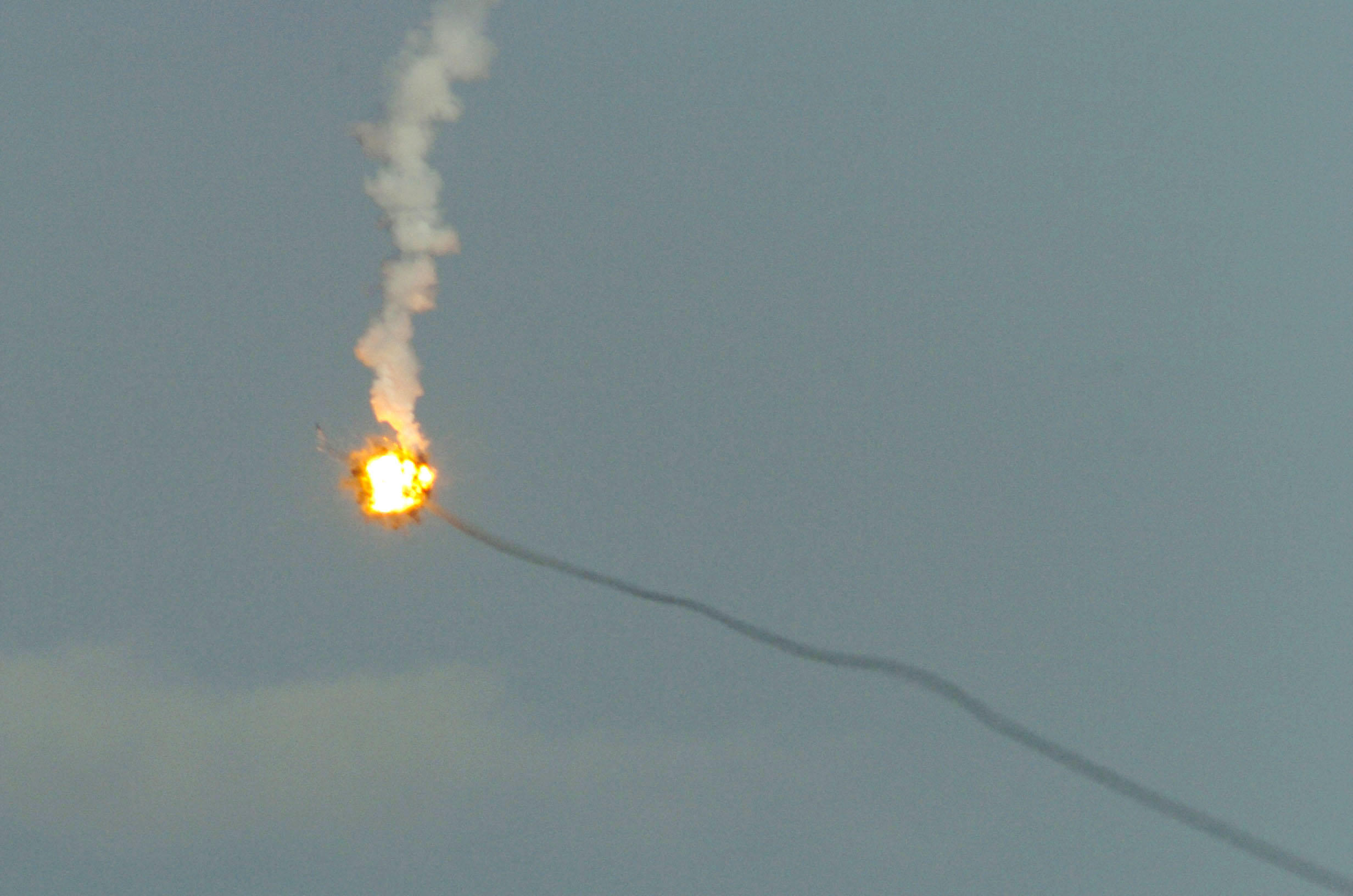 Indian Ocean (Sept. 20, 2004) - An AIM-9M Sidewinder air-to-air missile, launched from an F/A-18C Hornet piloted by the Executive Officer, Cmdr. George Slook assigned to the "Stingers" of Strike Fighter Squadron One One Three (VFA-113), scores a direct hit on an air launched LUU-2B/B illumination flare during a live fire missile exercise. The Stingers are attached to the nuclear powered aircraft carrier USS John C. Stennis (CVN 74). USS John C. Stennis (CVN 74) and embarked Carrier Air Wing Fourteen (CVW-14) are currently participating in a scheduled deployment to the Western Pacific Ocean. U.S. Navy photo by Photographer's Mate 3rd Class Mark J. Rebilas (RELEASED)